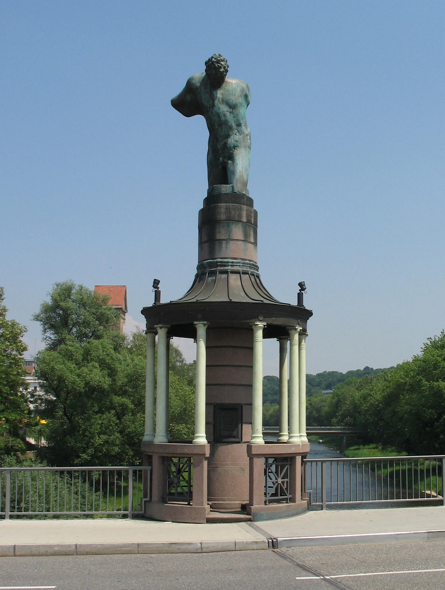 Pavillon on a bridge in Pforzheim, Germany, designed by Rob & Leon Krier. The statue upon it is similar to the Untitled sculpture Krier brothers designed for Leioa, Biscay, Basque Country, Spain.